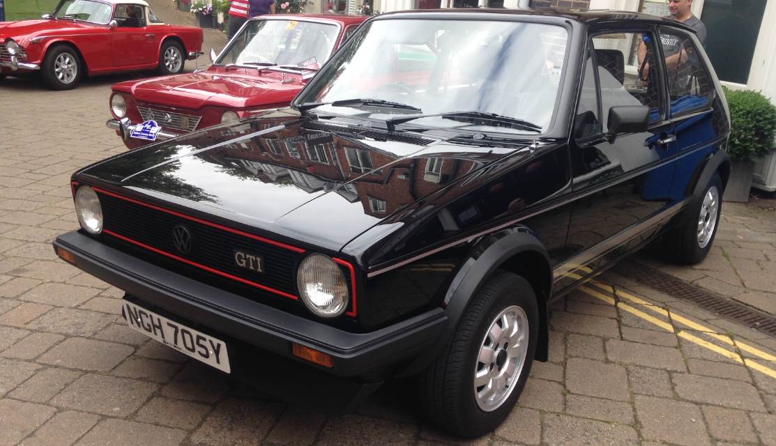 1983 Volkswagen Golf GTI Taken during the Warwick Classic Car Show